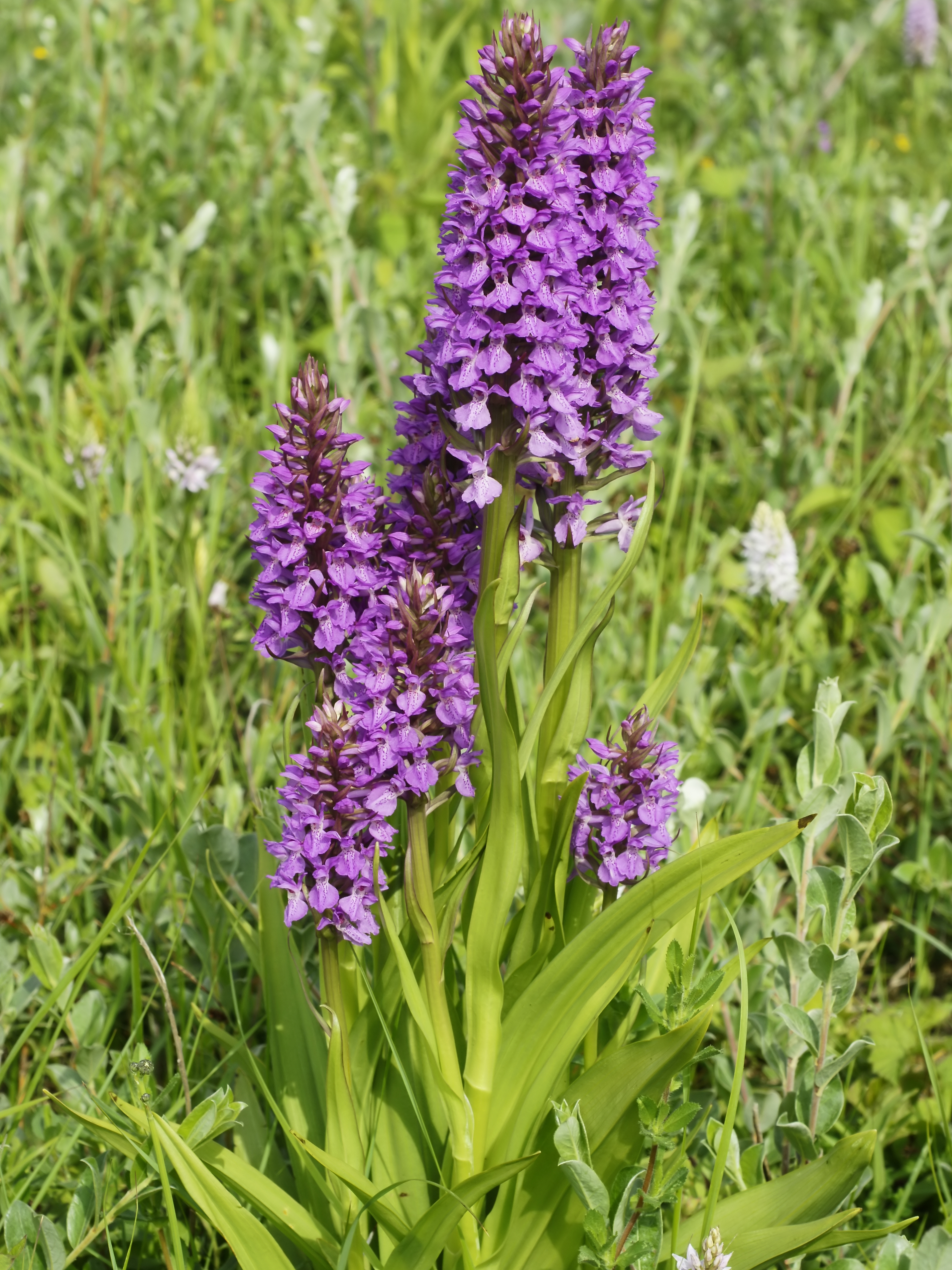 Southern Marsh-orchid. Belgium